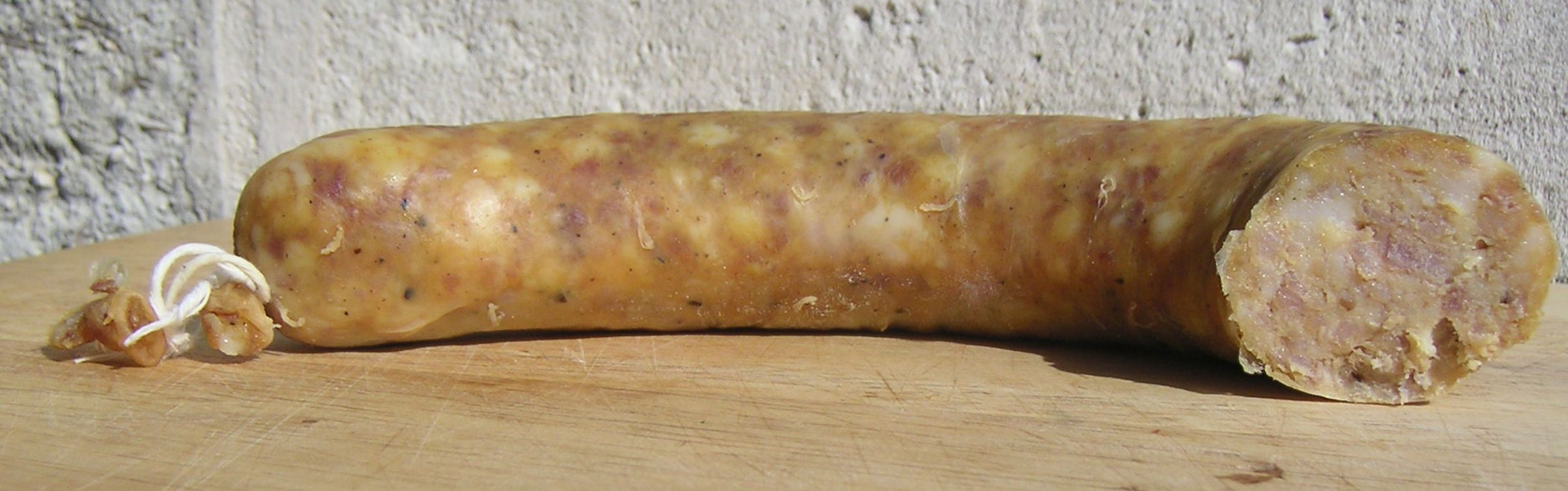 Egg "botifarra", made with porc meat and egg.